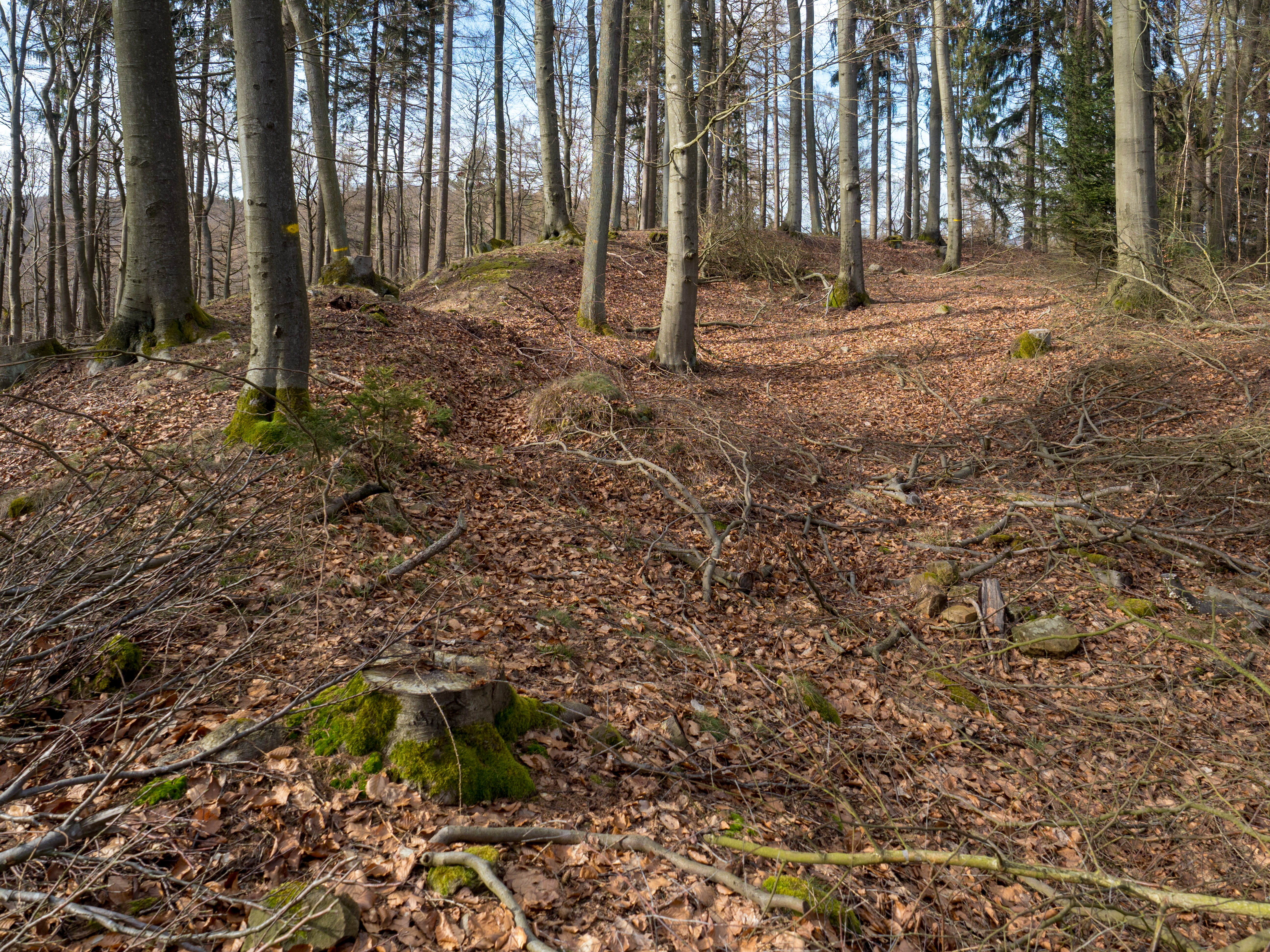 Remains of the fortifications on the Schwedenschanze near Hofheim in the district of Haßberge